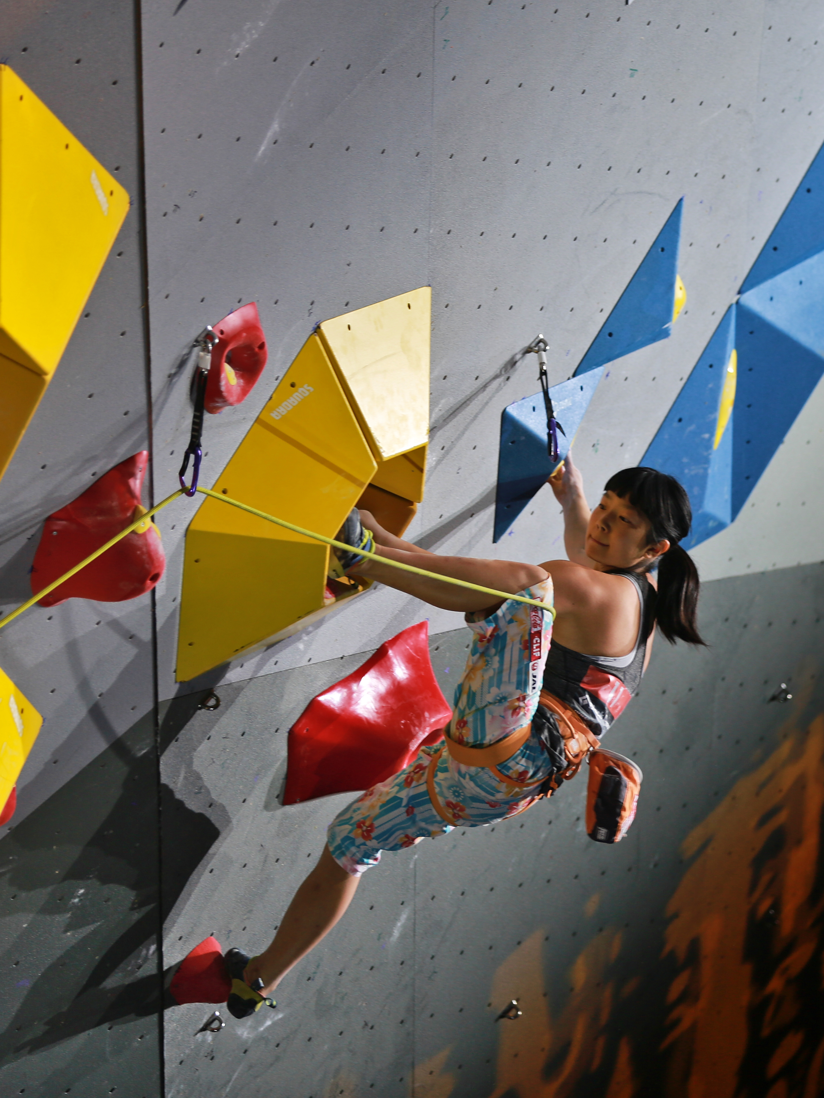 Climbing World Championships 2018 Lead Final Shiraishi